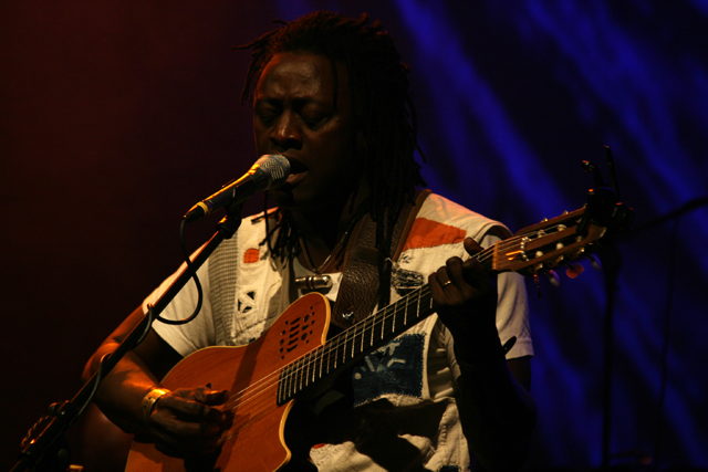 Habib Koité performing in 2008.